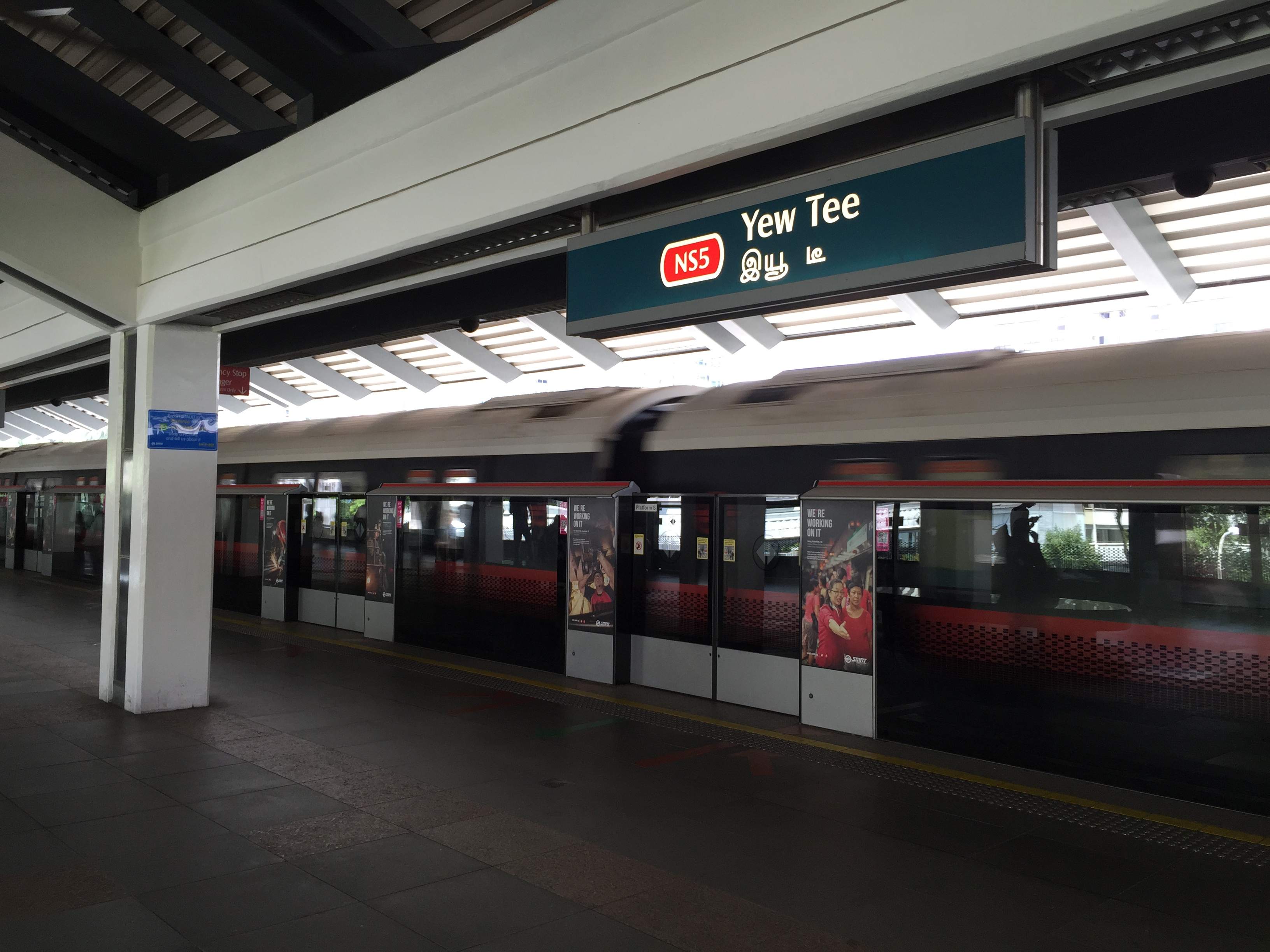 Yew Tee with New Signage